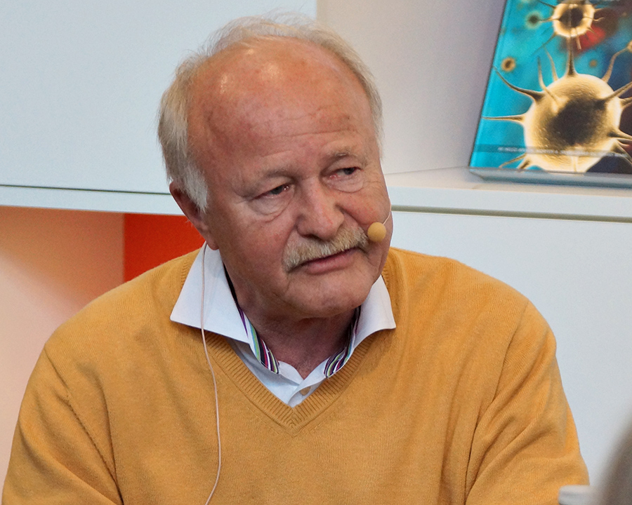 Hans-Jørgen Schanz - Danish historian, philosopher, dr.phil and professor at the Copenhagen Book Fair "BogForum 2014", Copenhagen, Denmark